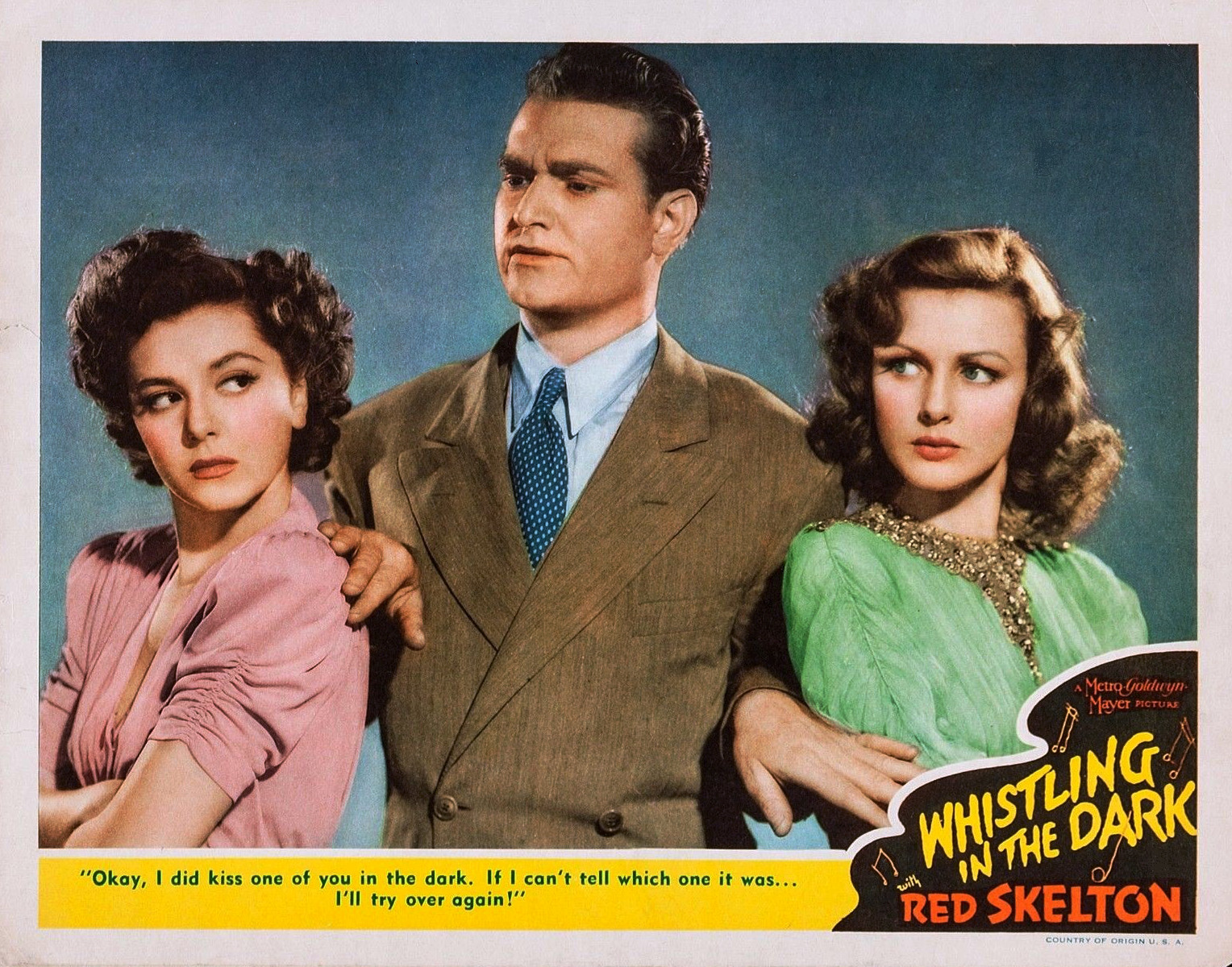 Lobby card from the 1941 film Whistling in the Dark. Pictured are Ann Rutherford, Red Skelton and Virginia Grey.